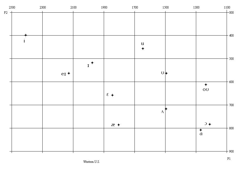 The vowel space of Western American English. Based on data from "The Atlas of North American English" by Labov, Ash, and Boberg.